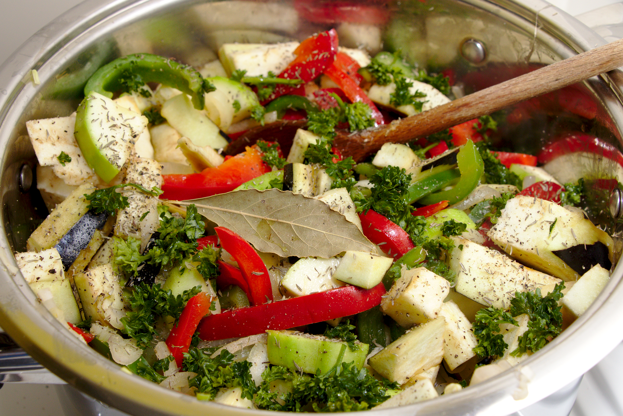 Ratatouille in a pot. Beginning of cooking.